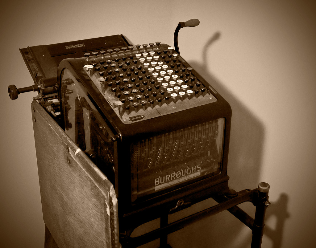 Old burroughs accounting machine at bank in west point